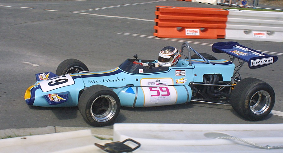 Former Tim Schenken Rondel Brabham BT36 Formula 2 being driven by John Bowe at Speed on Tweed